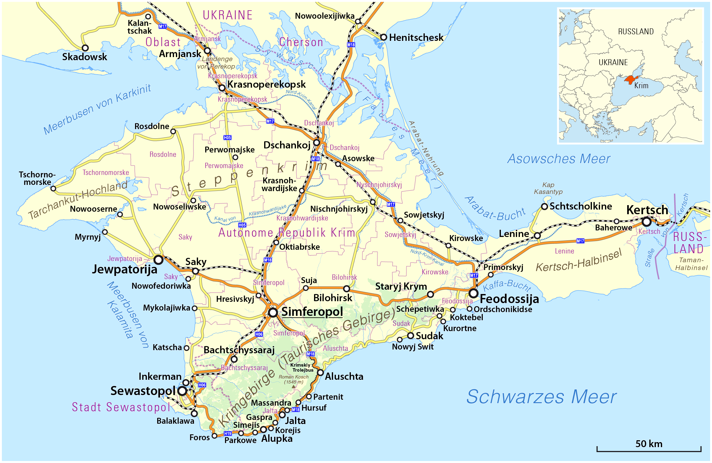 Topographic map of the Crimea peninsula